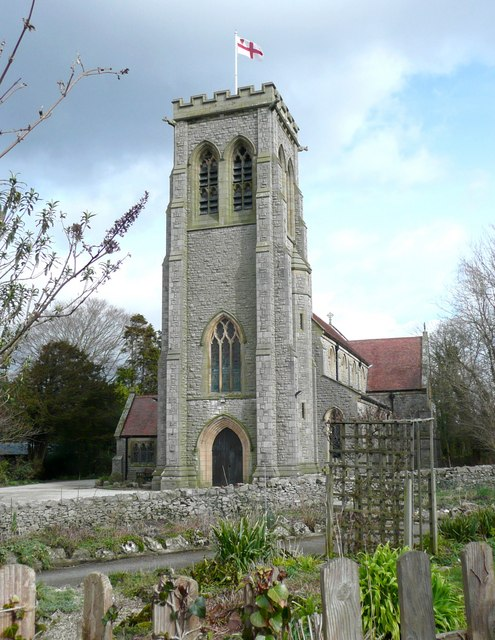 St John's Church, Silverdale. This view shows the large transept near to the east end. The porch is on the north side. See also 126508